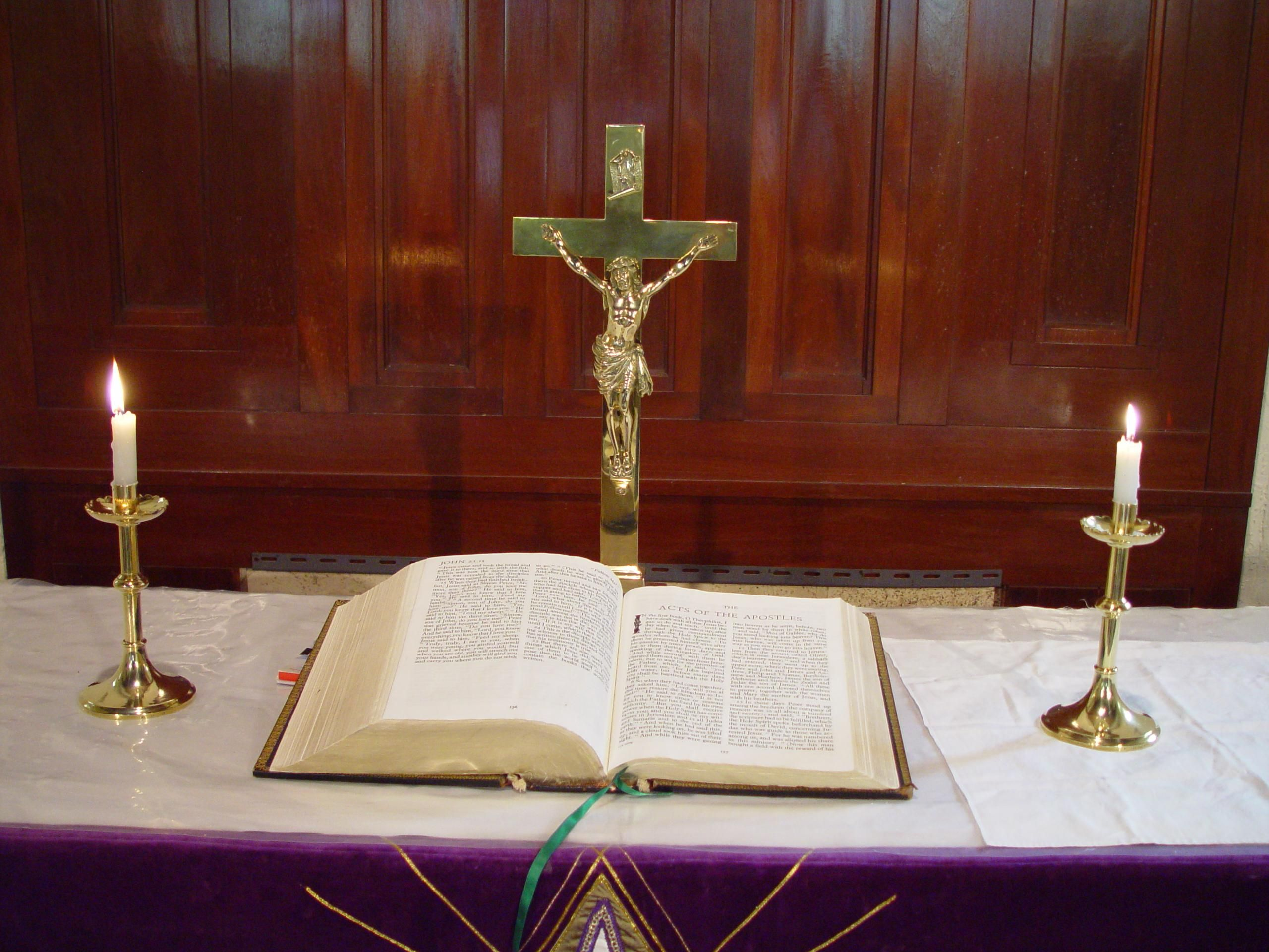 Image title: Altar and bible st Johns Lutheran Image from Public domain images website